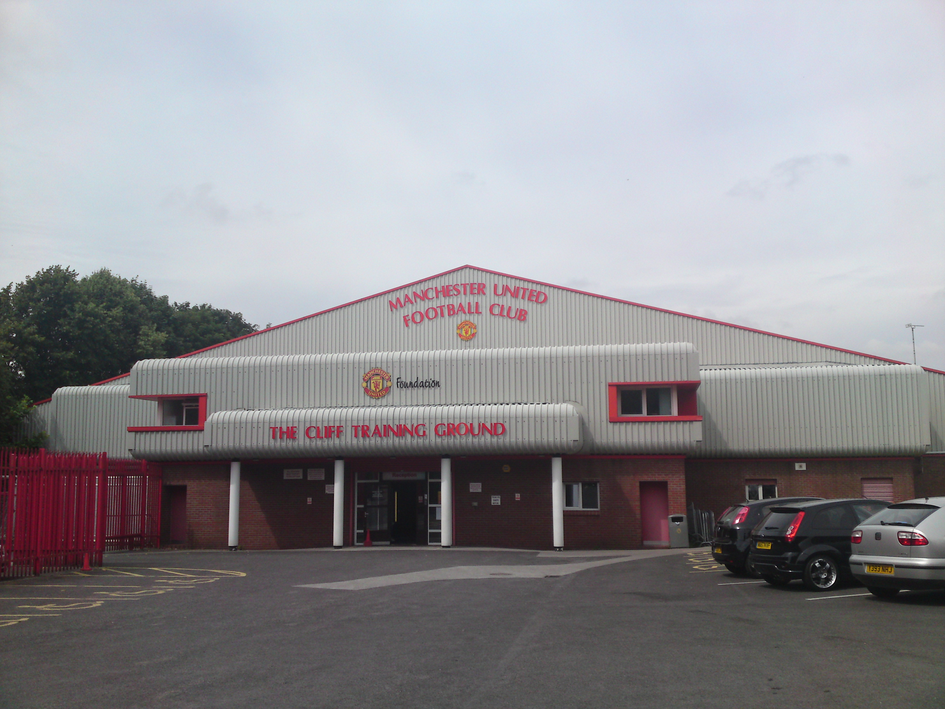 The administrative building at The Cliff